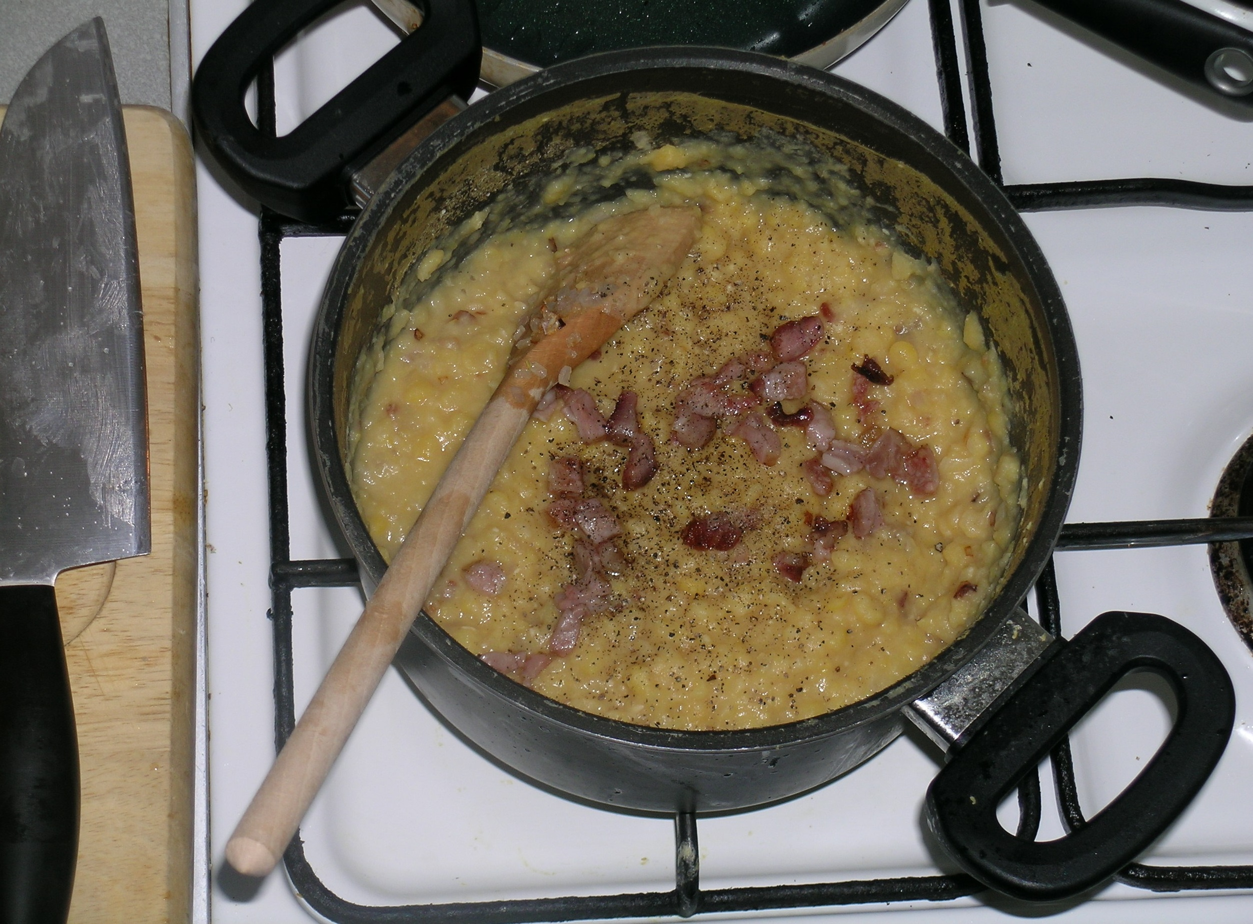 Peas pudding Polish style - ready dish